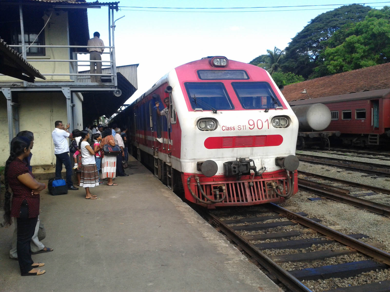 Sri Lanka Railways Class S11 diesel multiple unit train at Kurunegala railway station hauling an intercity service